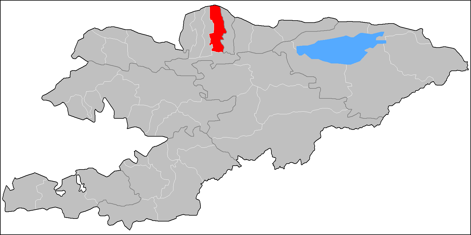 The location of the raion (district) of Sokuluk in Kyrgyzstan. Based on Image:Kyrgyzstan raions.png